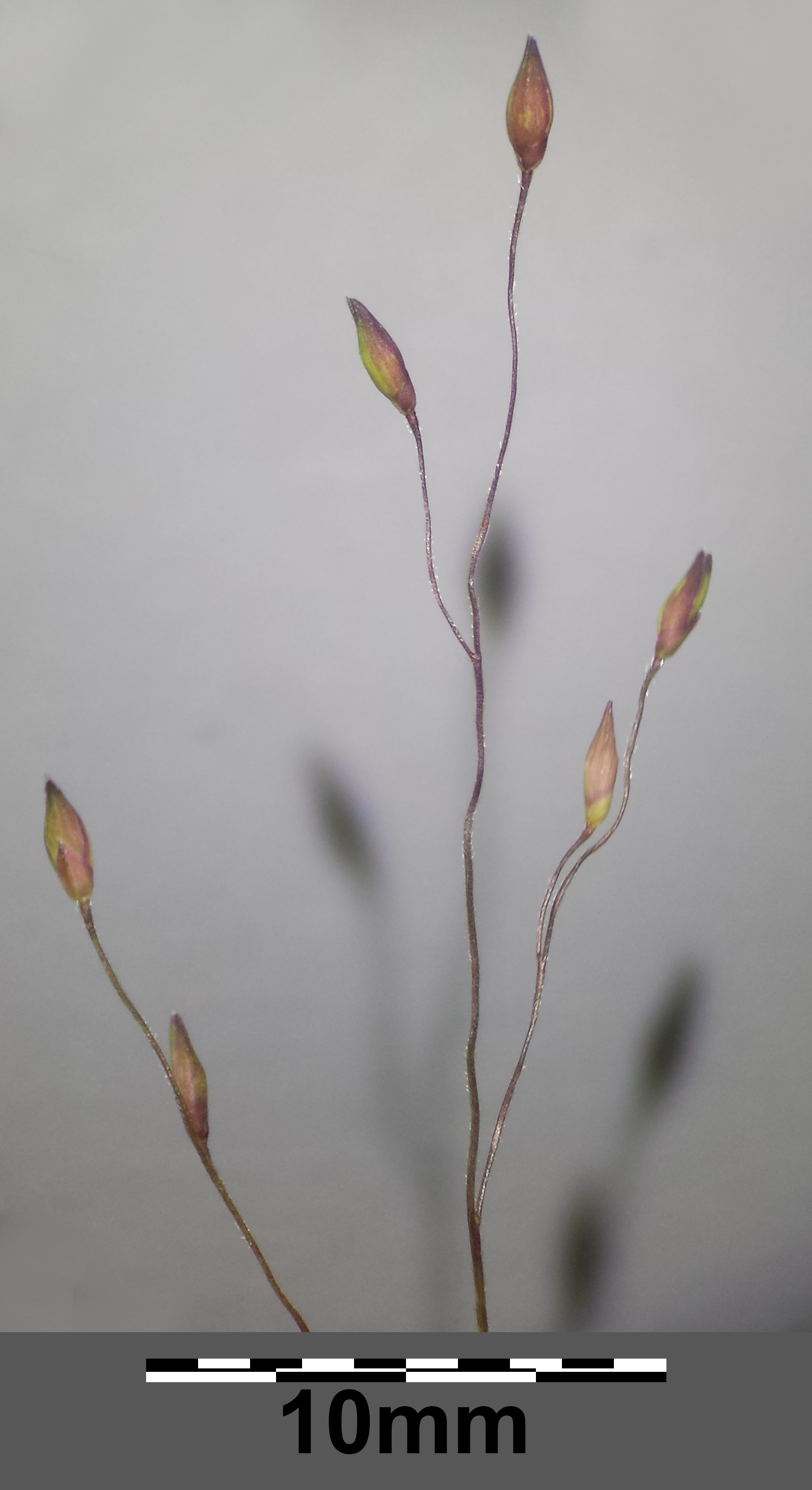 Branch of panicle with spikelets Taxonym: Panicum capillare ss Fischer et al. EfÖLS 2008 ISBN 978-3-85474-187-9 Location: Grellgasse, Vienna-Floridsdorf - ca. 160 m a.s.l. Habitat: slope